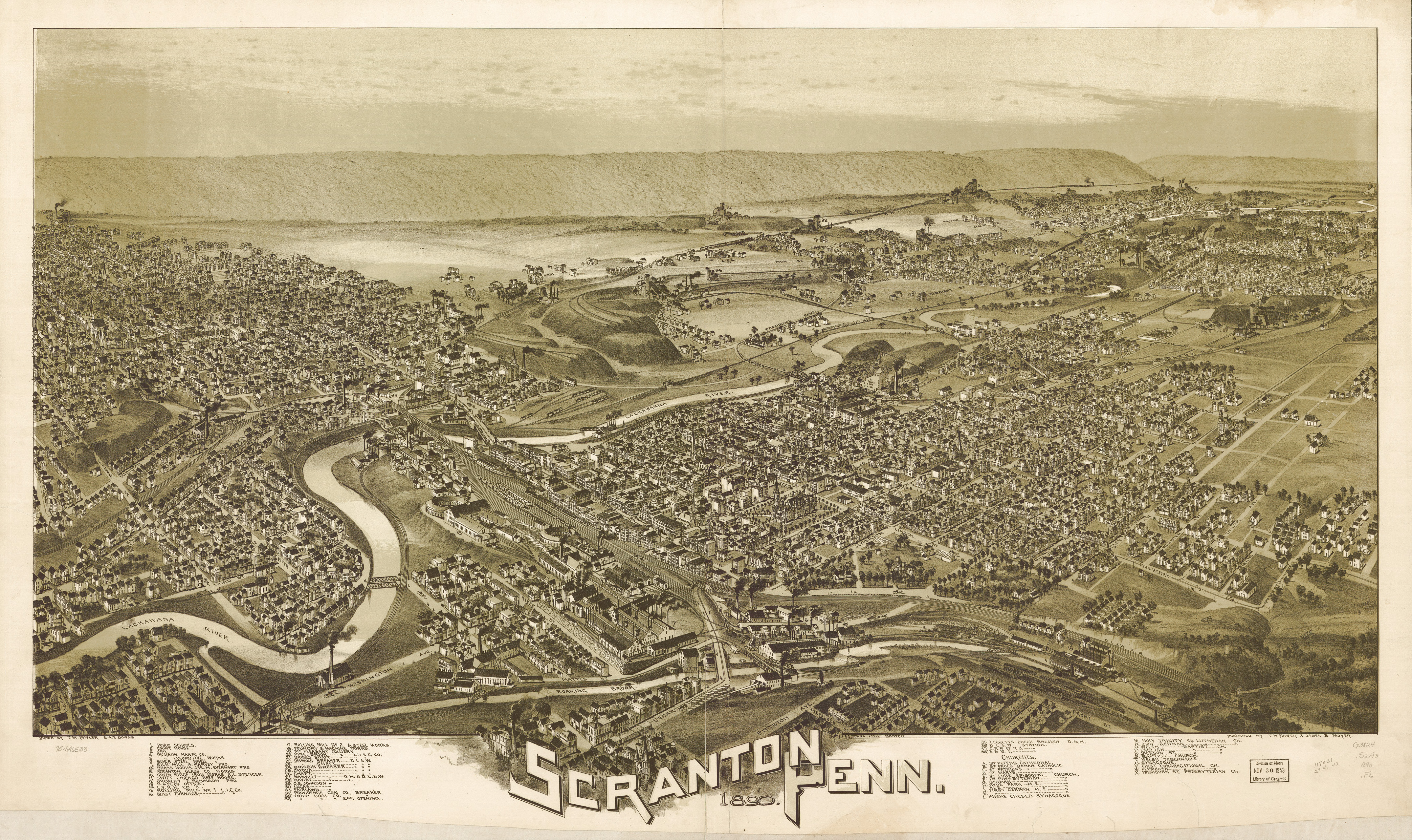 An old bird-eye map of Scranton, Pennsylvania, United States.